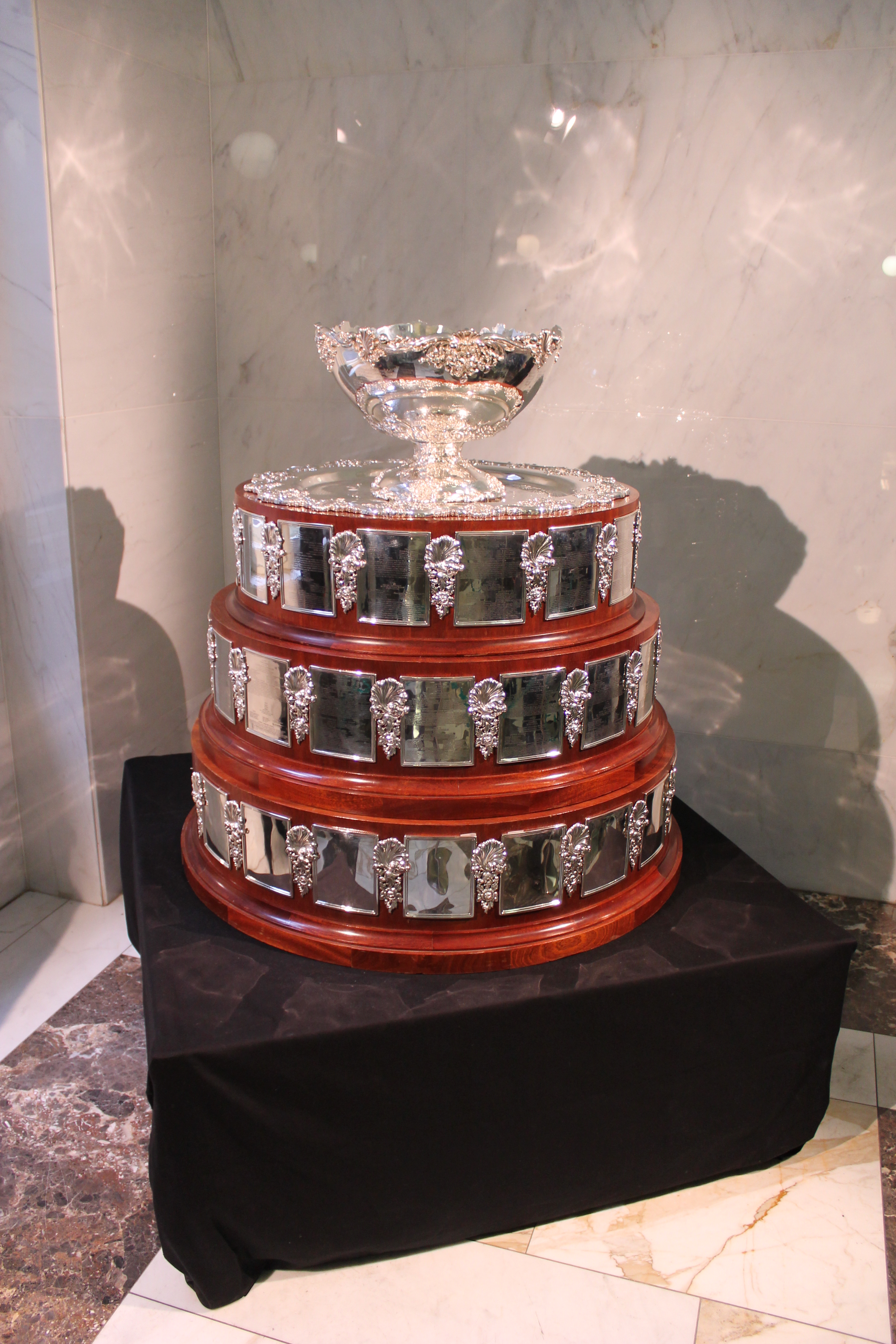 Davis Cup trophy exposed in the Český rozhlas headquarters, Prague-Vinohrady